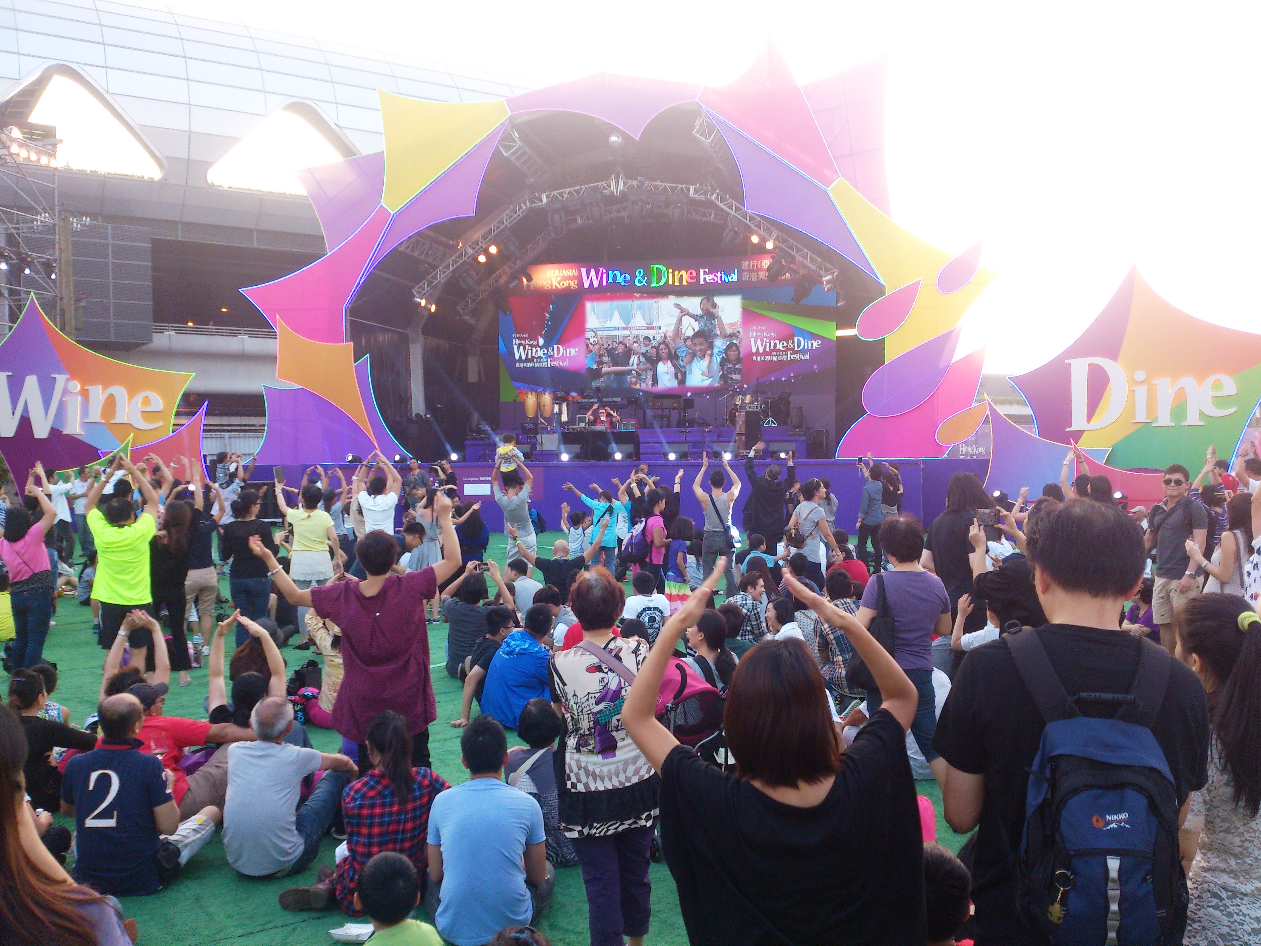 Hong Kong Wine and Dine Festival 2014 Stage